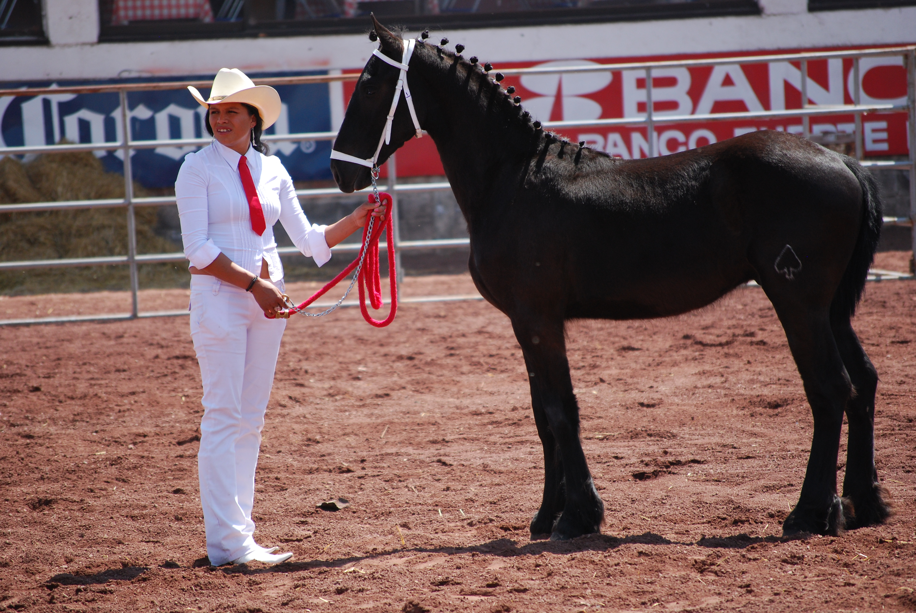 Horse with trainer at the Feria del Caballo in Texcoco, Mexico State, Mexico